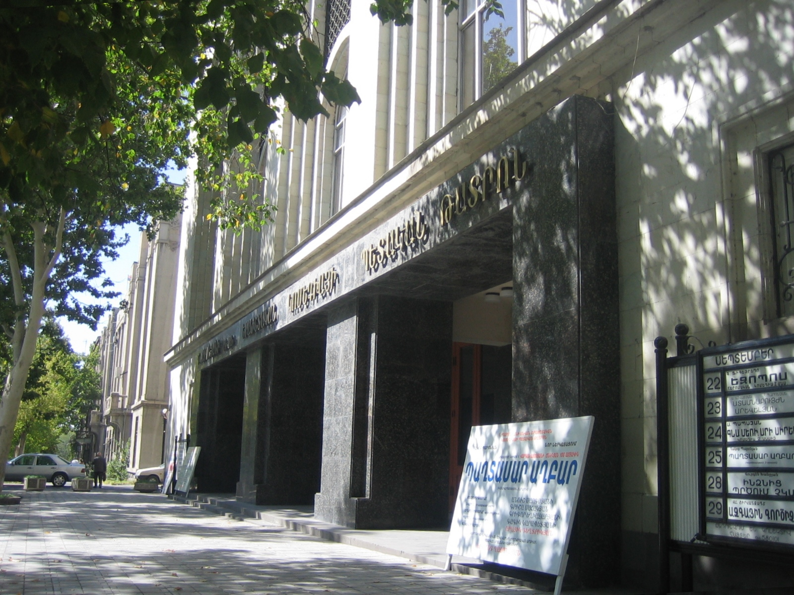 Yerevan State Musical Comedy Theatre / Baronyan Musical Comedy Theater, near Parliament Square, September, 2005. Featured that week were comedy plays by Hagop Baronian: Baghdasar Aghpar (Brother Balthazar) and Arevelyan Adamnapoozhu (The Eastern Dentist). The best tickets in the house run for around $3 USD. Most plays feature a live orchestra.